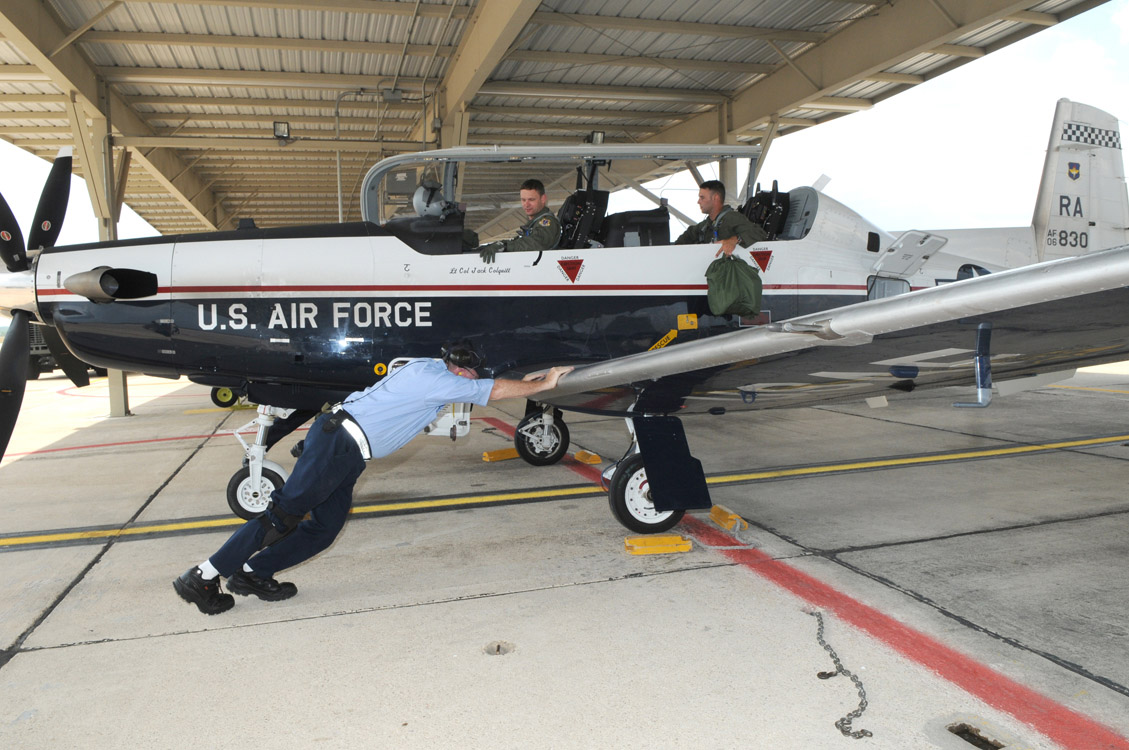 Bill Taylor, 12th Flying Training Wing Maintenance Division, repositions a T-6 aircraft after landing at Randolph AFB, TX on July 1, 09. (U.S. Air Force photo by Rich McFadden)